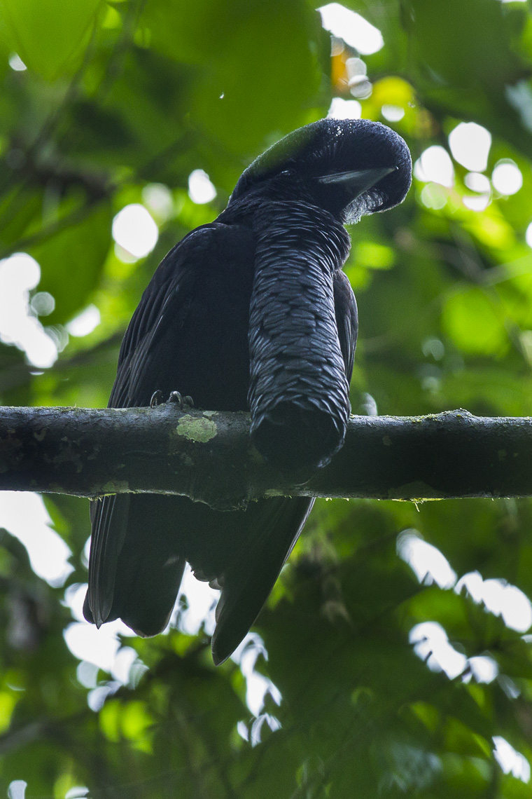 Long-wattled umbrellabird (Cephalopterus penduliger) - South Ecuador_S4E8115